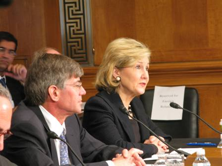 Senator Kay Bailey Hutchison Speaks in Support of James B. Steinberg's Nomination to the Position of Deputy Secretary of State.